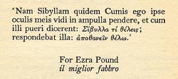 A scan of the text of the epigraph and dedication to T. S. Eliot's poem The Waste Land (1922).